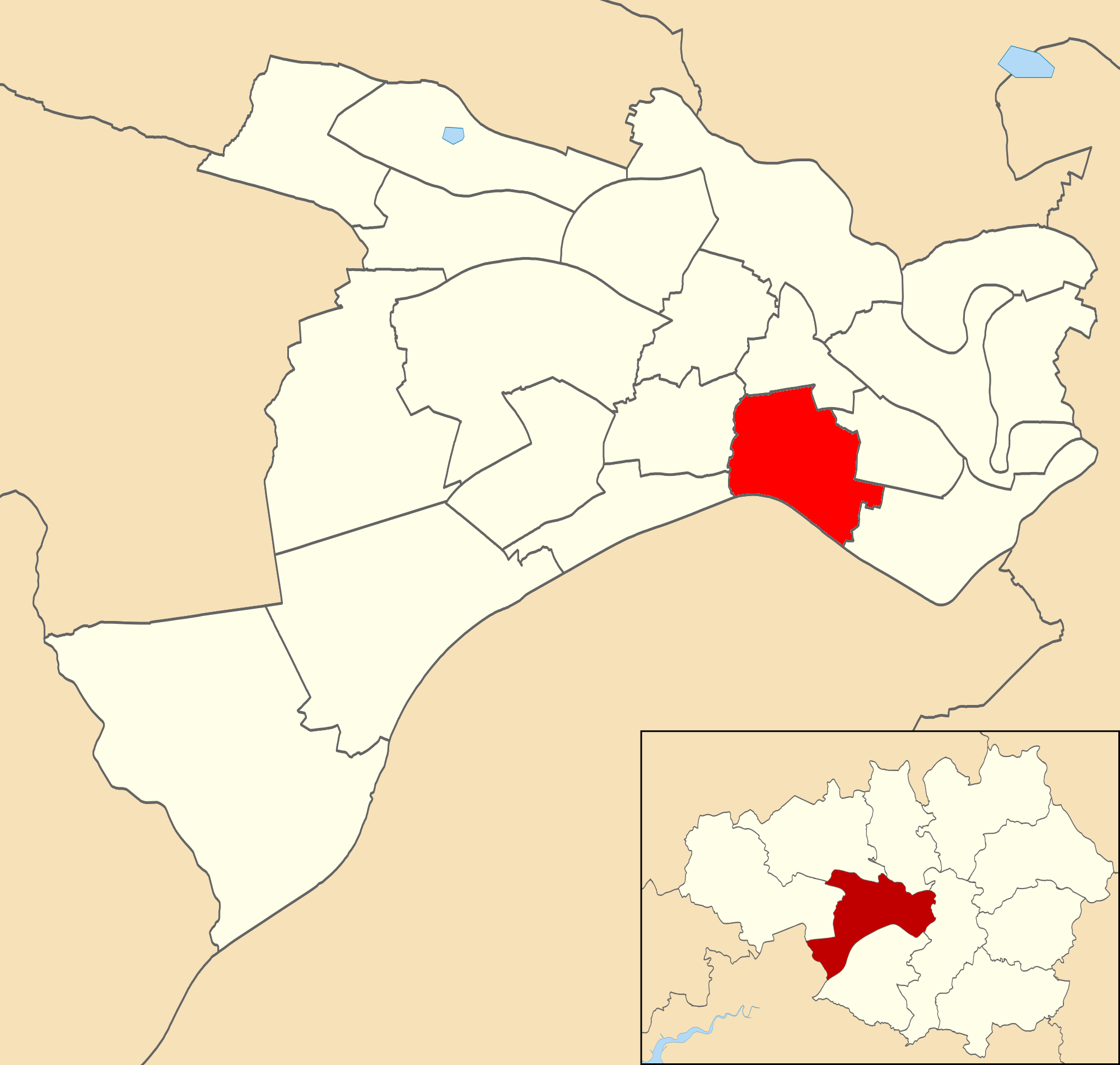 Map showing location of Weaste & Seedley ward within Salford City Council.